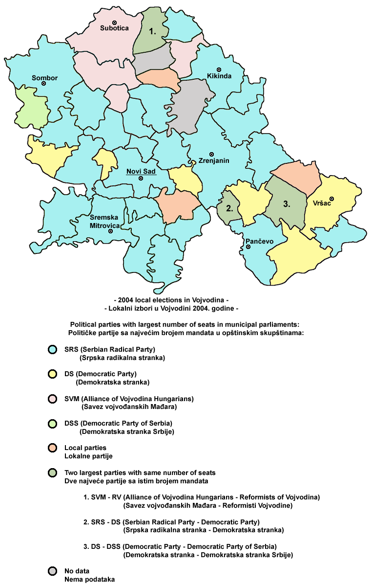 Election map of Vojvodina from 2004 - results of local elections.